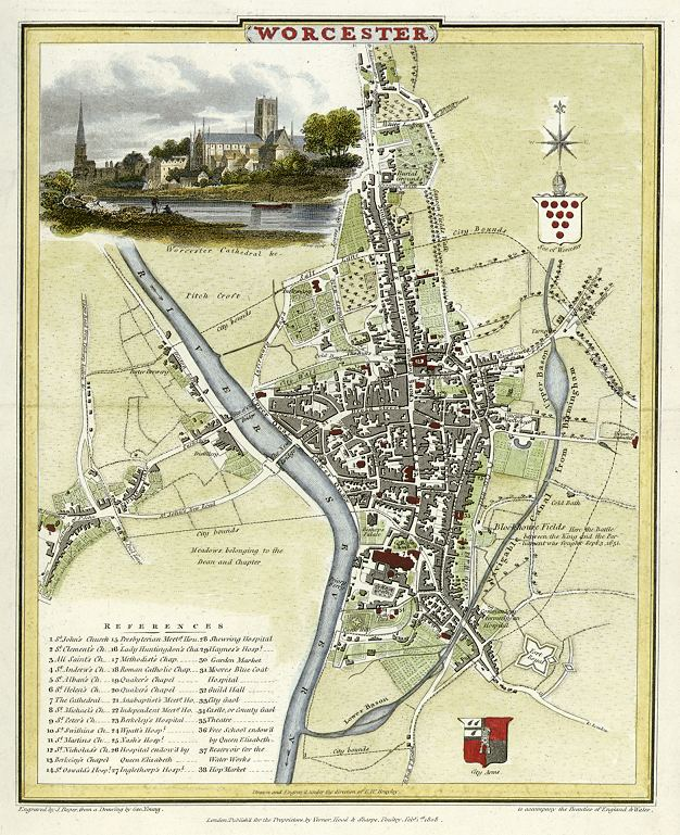 A map of Worcester in 1806 (engraved by J. Roper from a drawing by G. Cole).